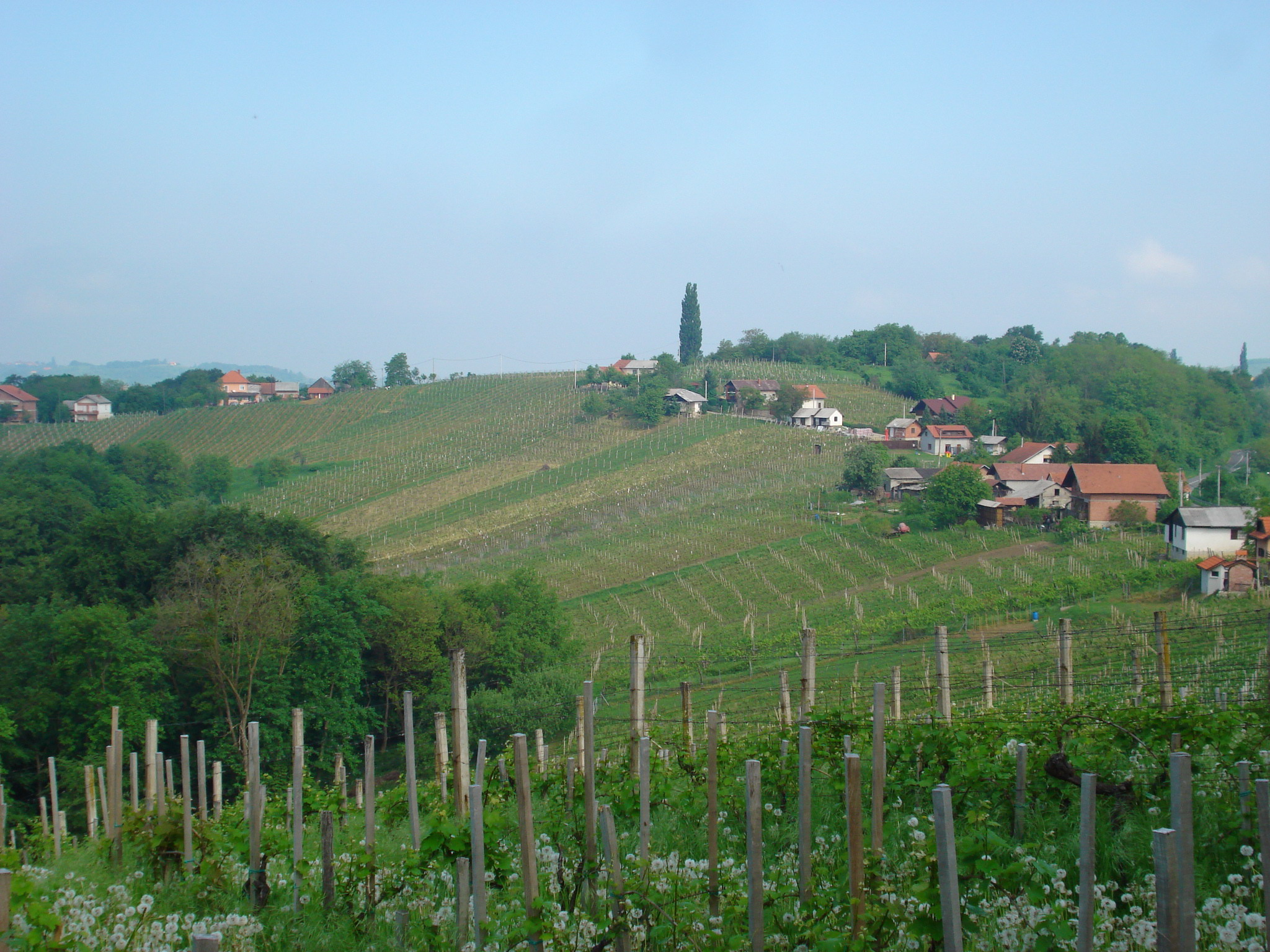 2013 spring landscape of "Međimurske gorice", Međimurje wine subregion, at Sveti Urban village, northern Croatia